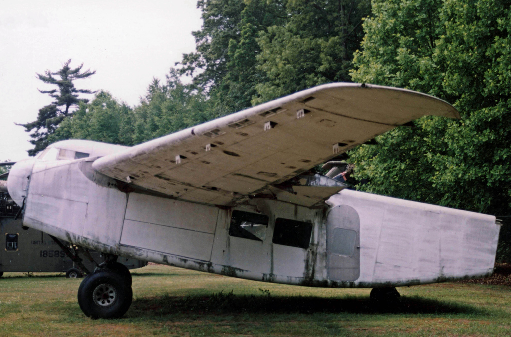 Side view of the Burnelli CBY-3 at the New England Air Museum at Windsor Locks, Connecticut